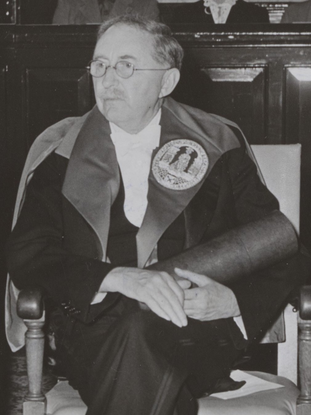 E.M. Forster, honorary doctorate of Leiden University, 1954. Leiden, 23 June 1954